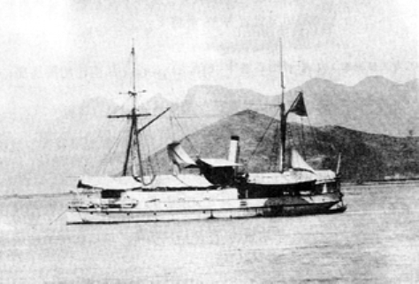 Chien-sheng_gunboat